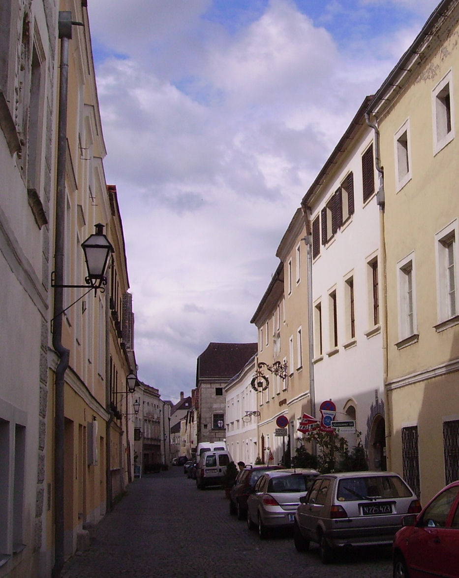 Stein (Krems an der Donau), Austria